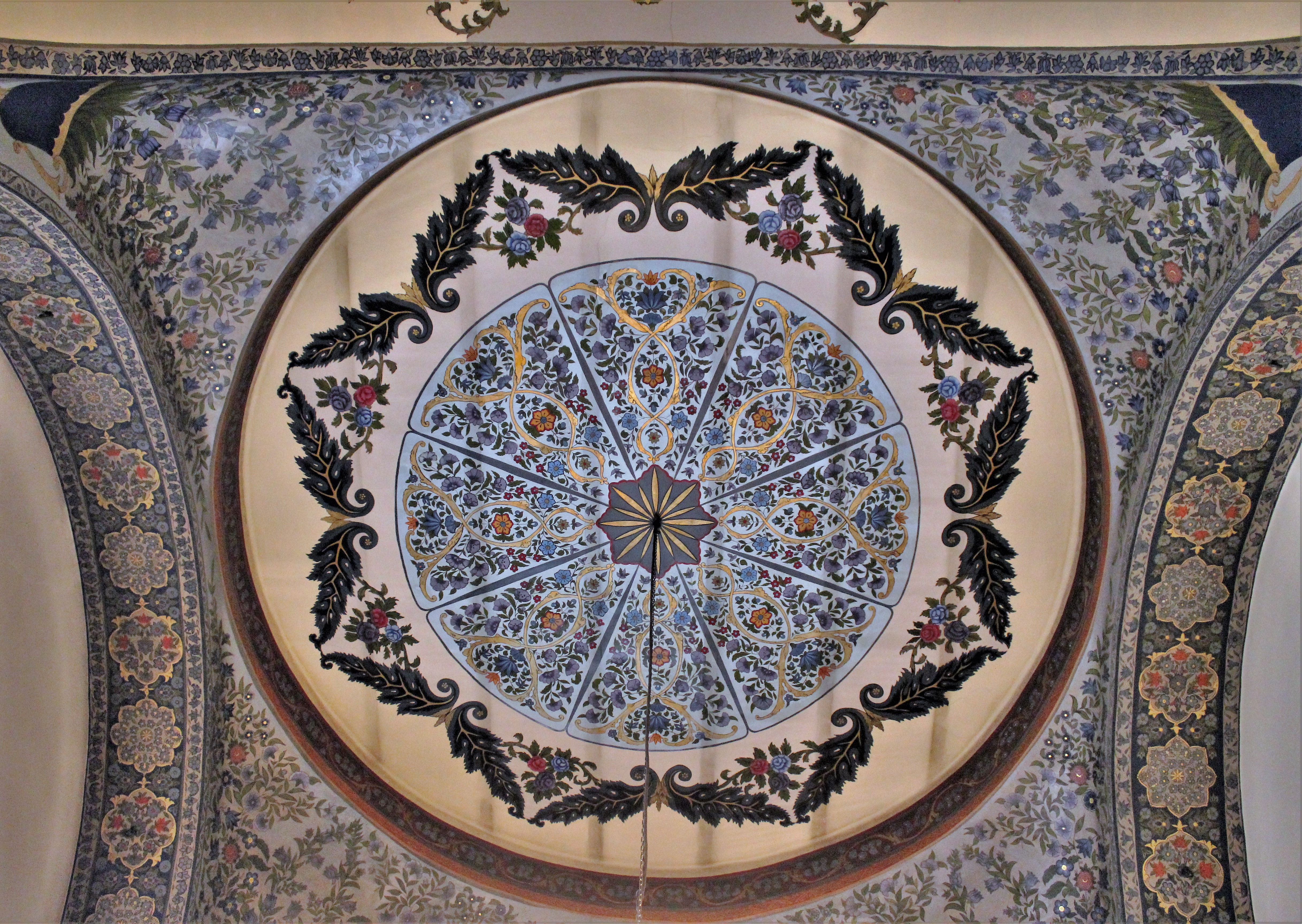 Fragment from the ceiling of Echmiadzin Cathedral 2/14.1